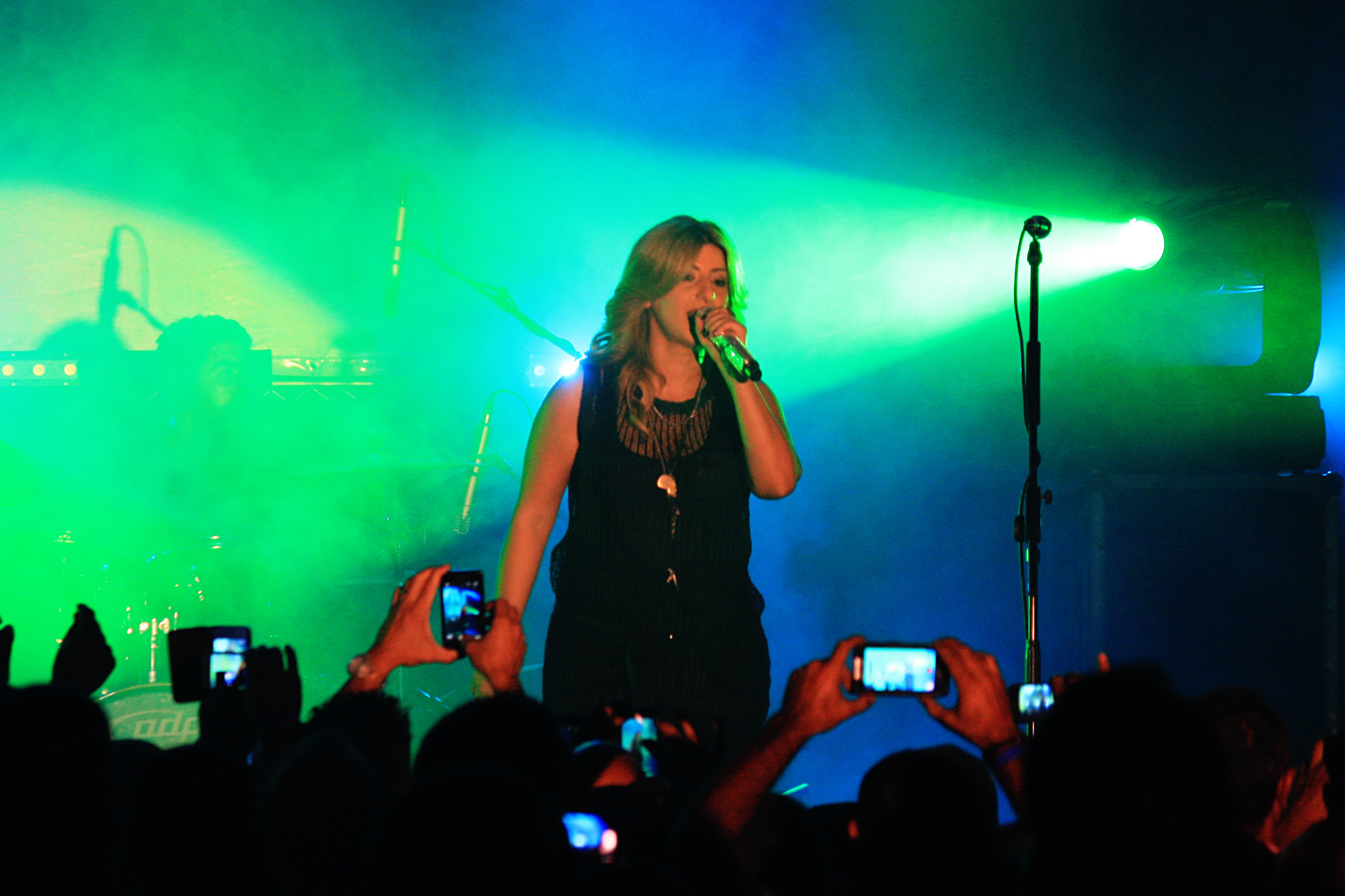 Sarit Hadad.